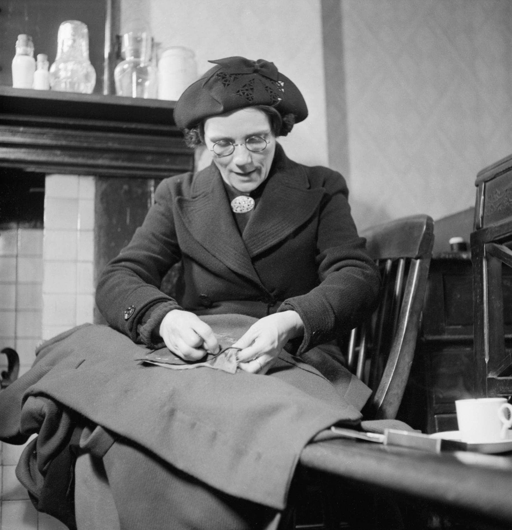 Mend and Make Do- Dressmaking Classes in London, 1943 Mrs K Holmes make a coat for one of her three children at the Make Do and Mend class she is attending. This class is held in the office of the Kennington branch of the Labour Party. She appears to be sewing a pocket on by hand.